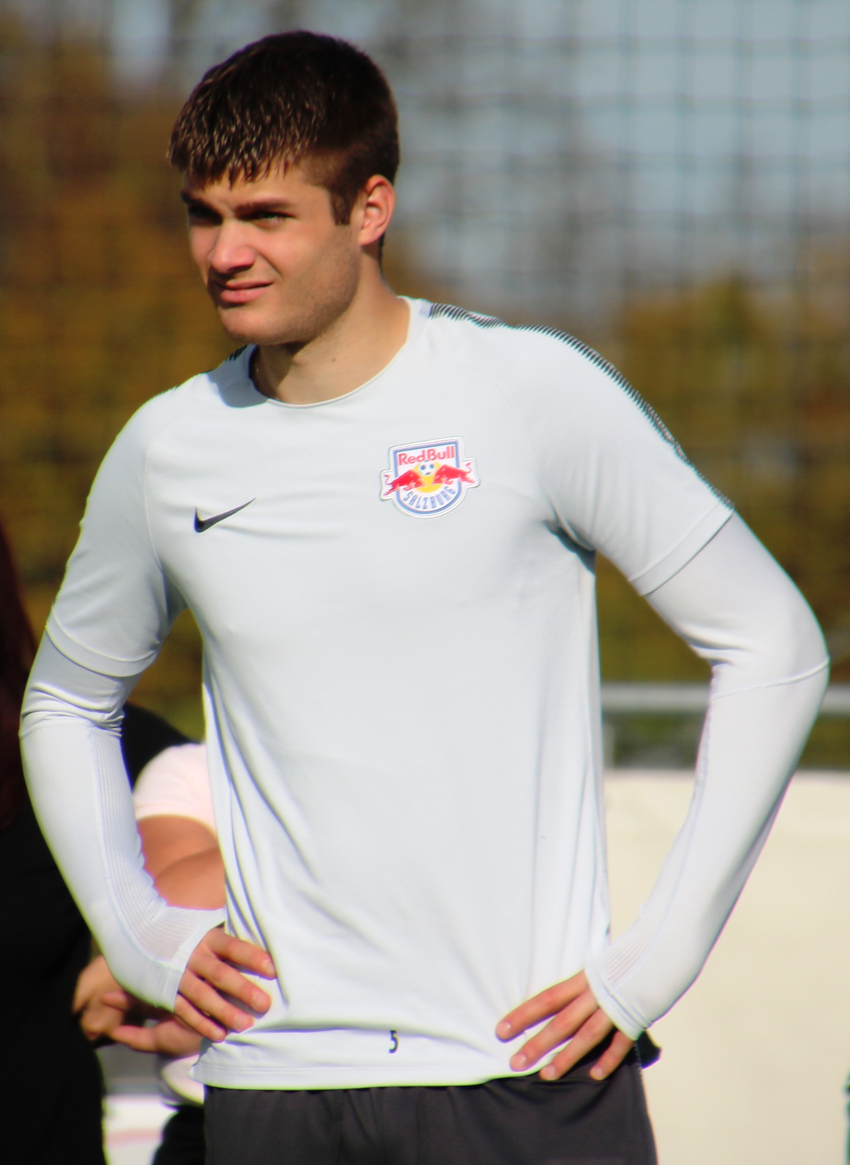 Supporterclubs footballtournament